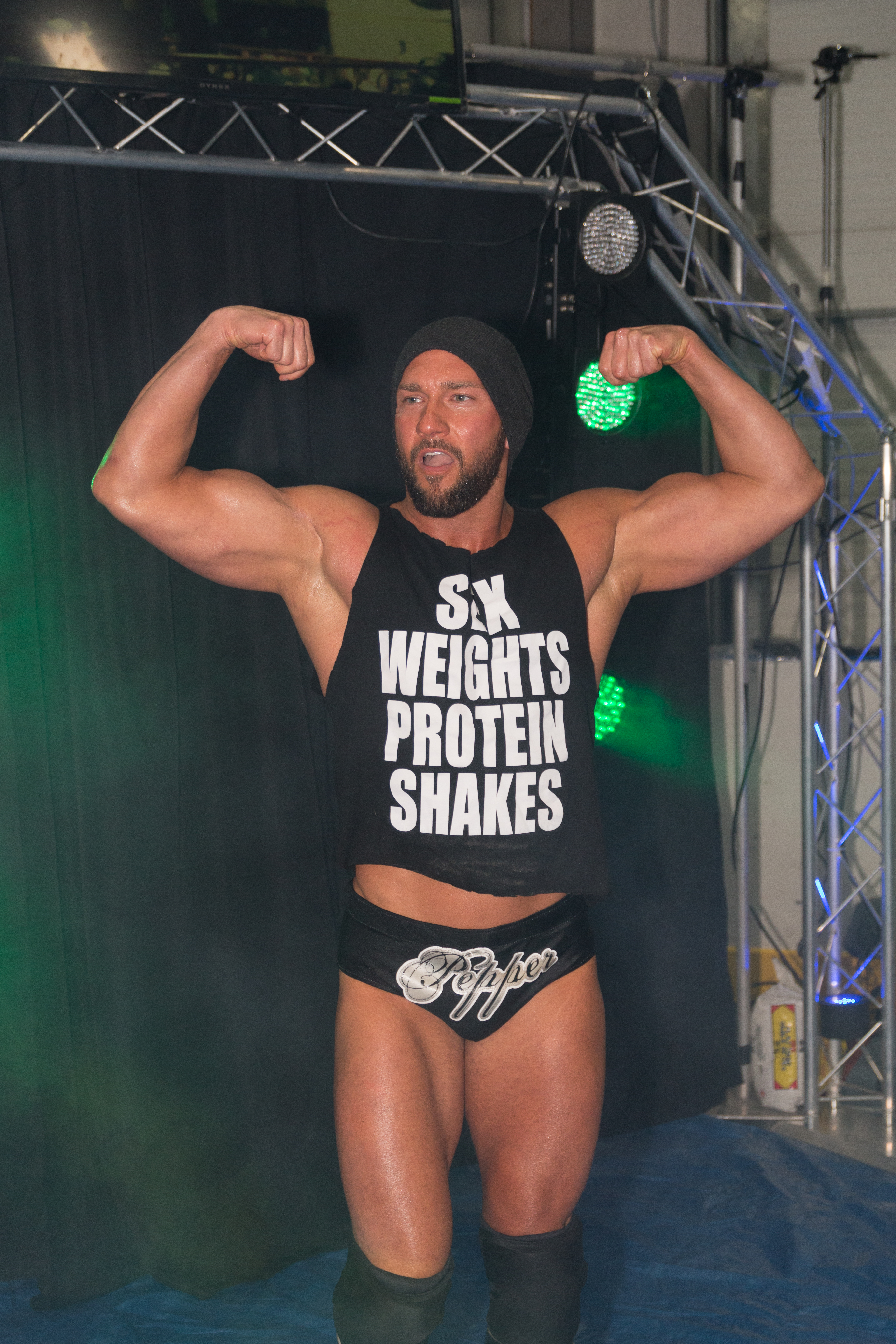 Wrestler Pepper Parks making his entrance at a Smash Wrestling show in Etobicoke, ON